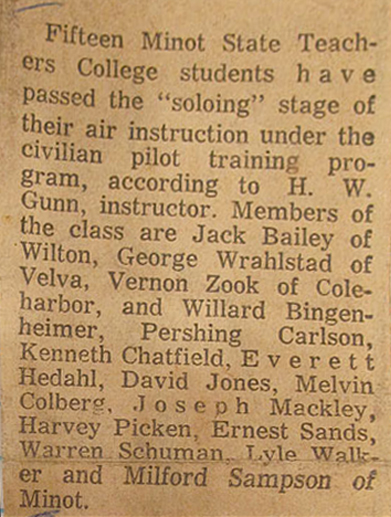 College Students complete their Aircraft Solo, ready for advanced training and eventual licensing